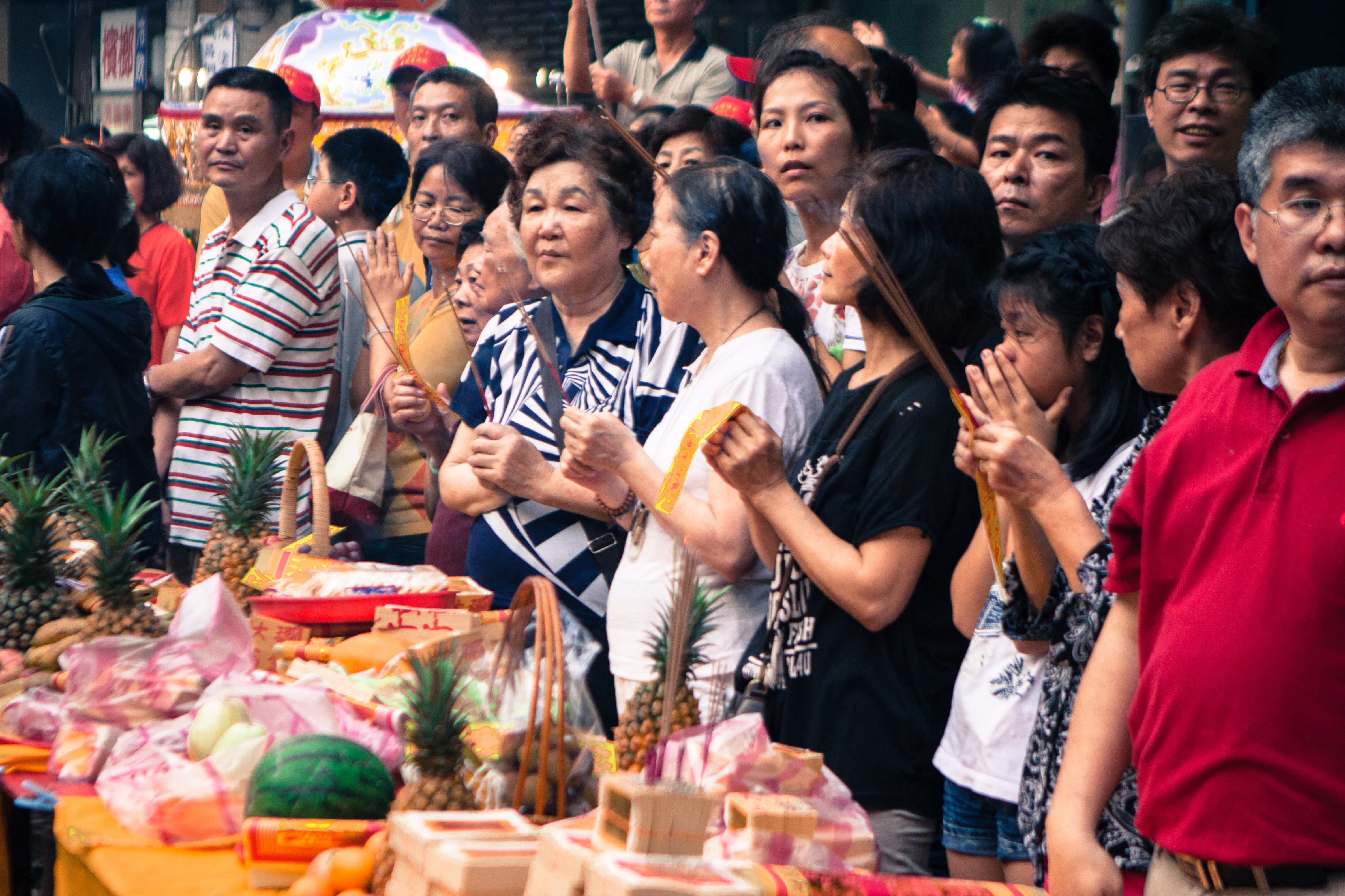 Buddhism temple festival praying devotees